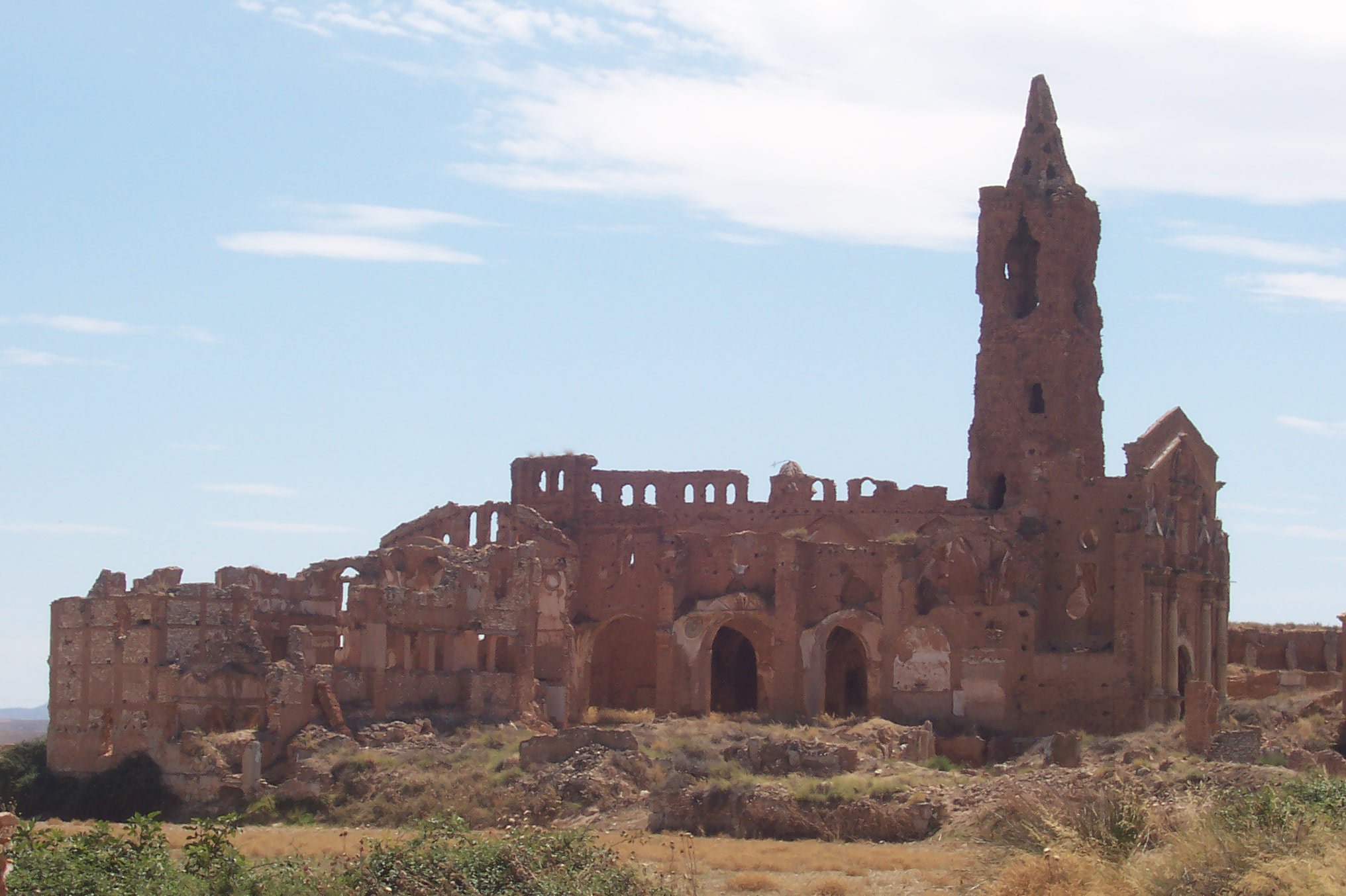 left side of the abandonned church of Belchite